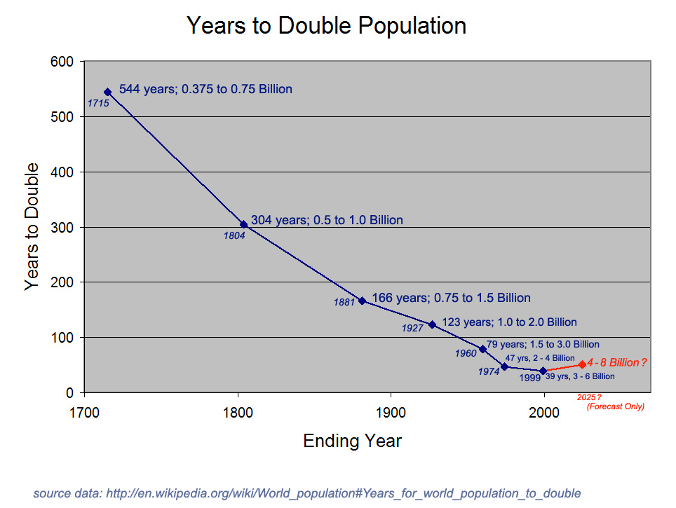 Graphical presentation of data in 'World Population' article showing number of years taken for World Population to double. Two series are interleaved, one starting from 0.25 billion the other from 0.375 billion. Both the graph and table upon which it is based clearly show the number of years taken for the population to double has been constantly decreasing, although current forecasts for future doubling do not. Each time the population doubles the actual increase is of course very significantly more than for the previous doubling.